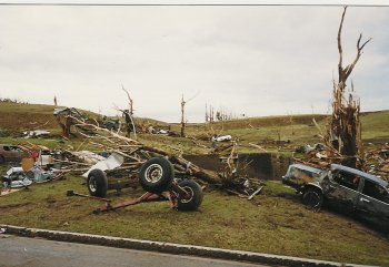 Damage to a house from an F5 tornado on June 16, 1992 in Chandler